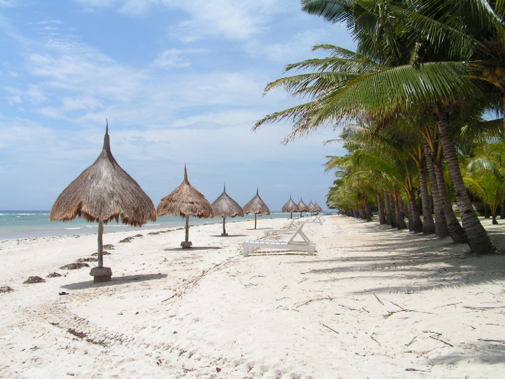 Bohol Beach Club.